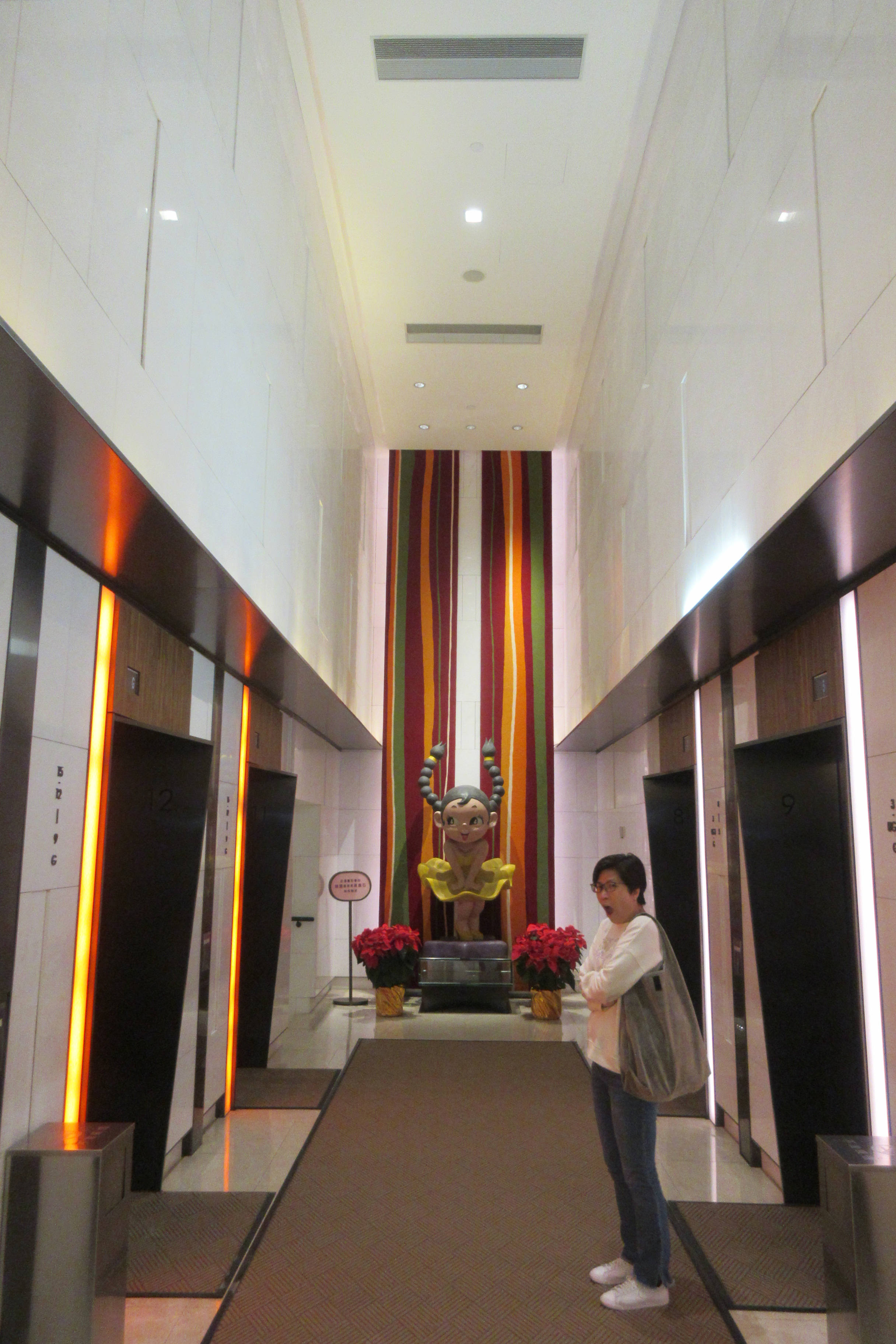 HK 尖沙咀東 TST East Mody Road ChinaChem Group lift lobby art 龔如心 Nina Wang Kung Yu-Sum 華懋廣場 Golden Plaza in December 2018